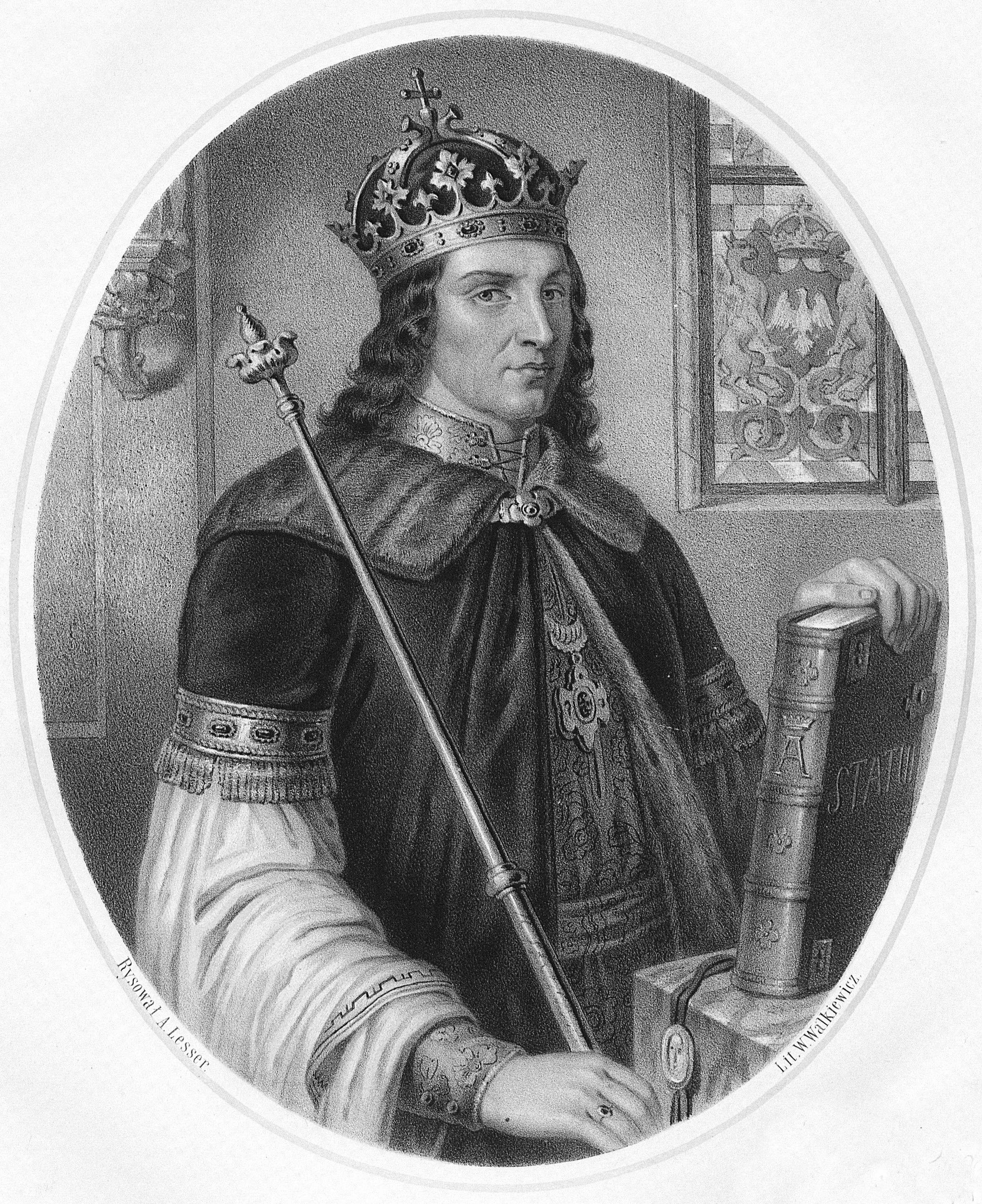 Alexander Jagiellon, King of Poland